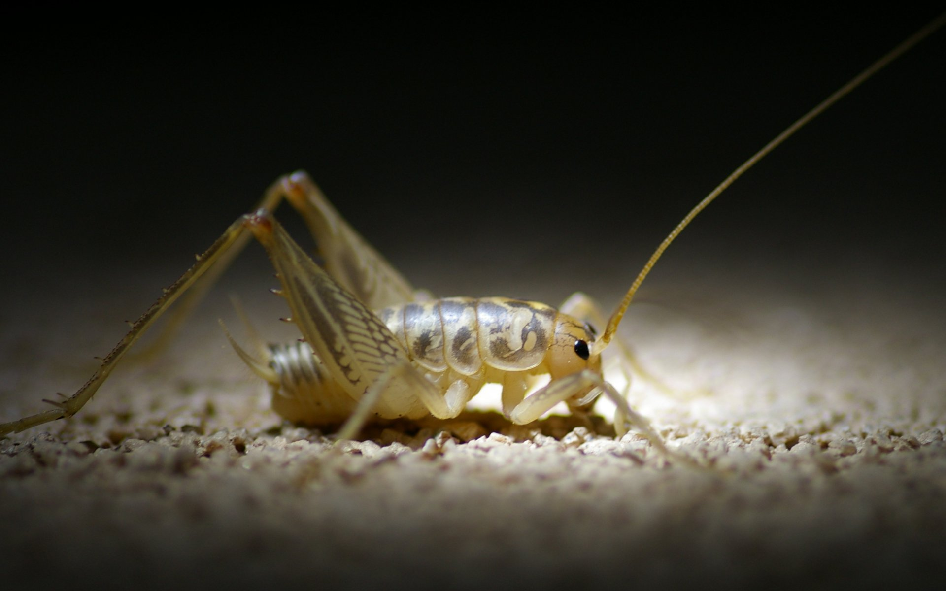 Profile picture of what I think is a Rhaphidophoridae.